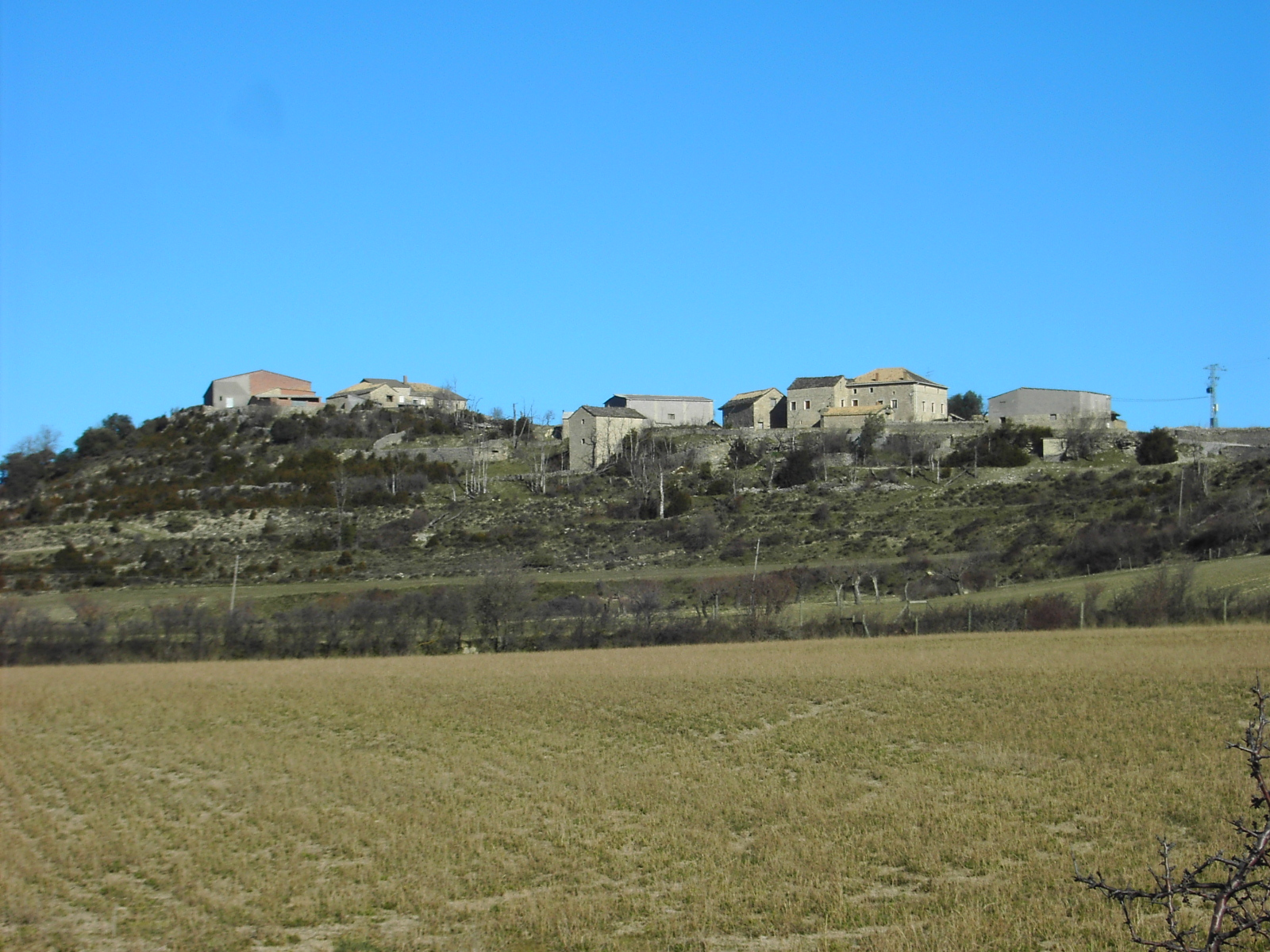 Village of O Coscollar in Huesca, Spain.